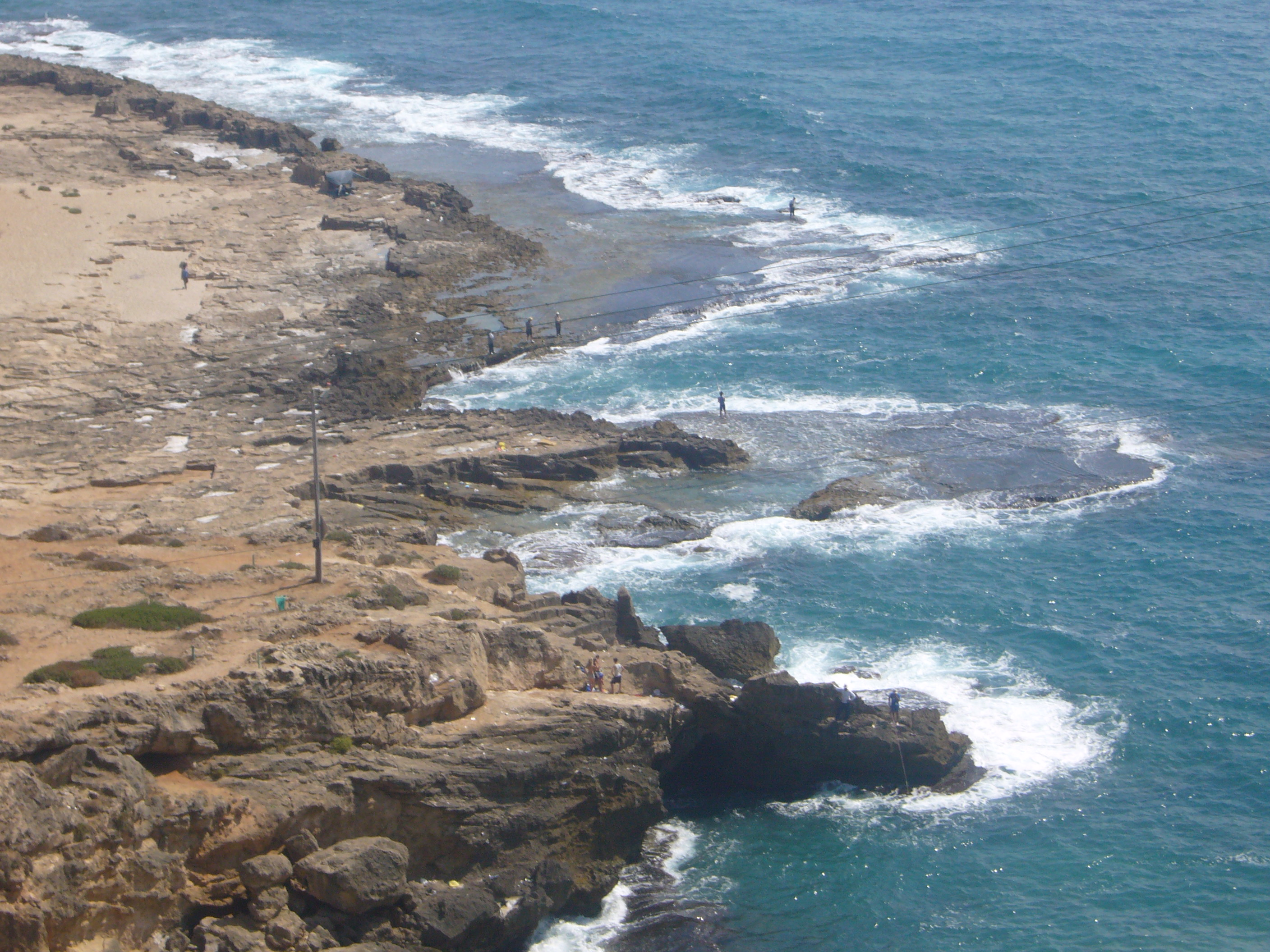 A view of Ras an-Naqoura's Mediterranean coastline